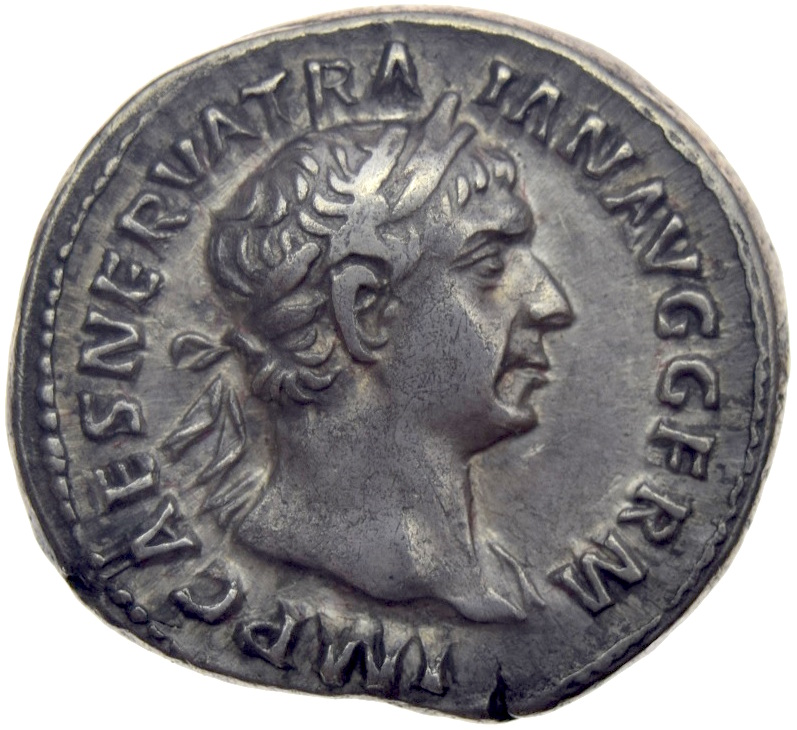 Denarius of Trajan, minted in Rome between 101-102 CE